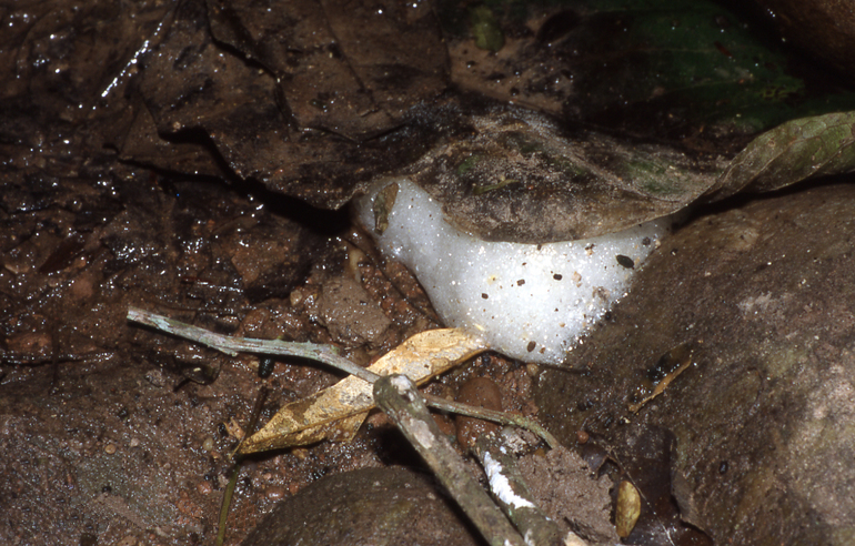 Engystomops petersi